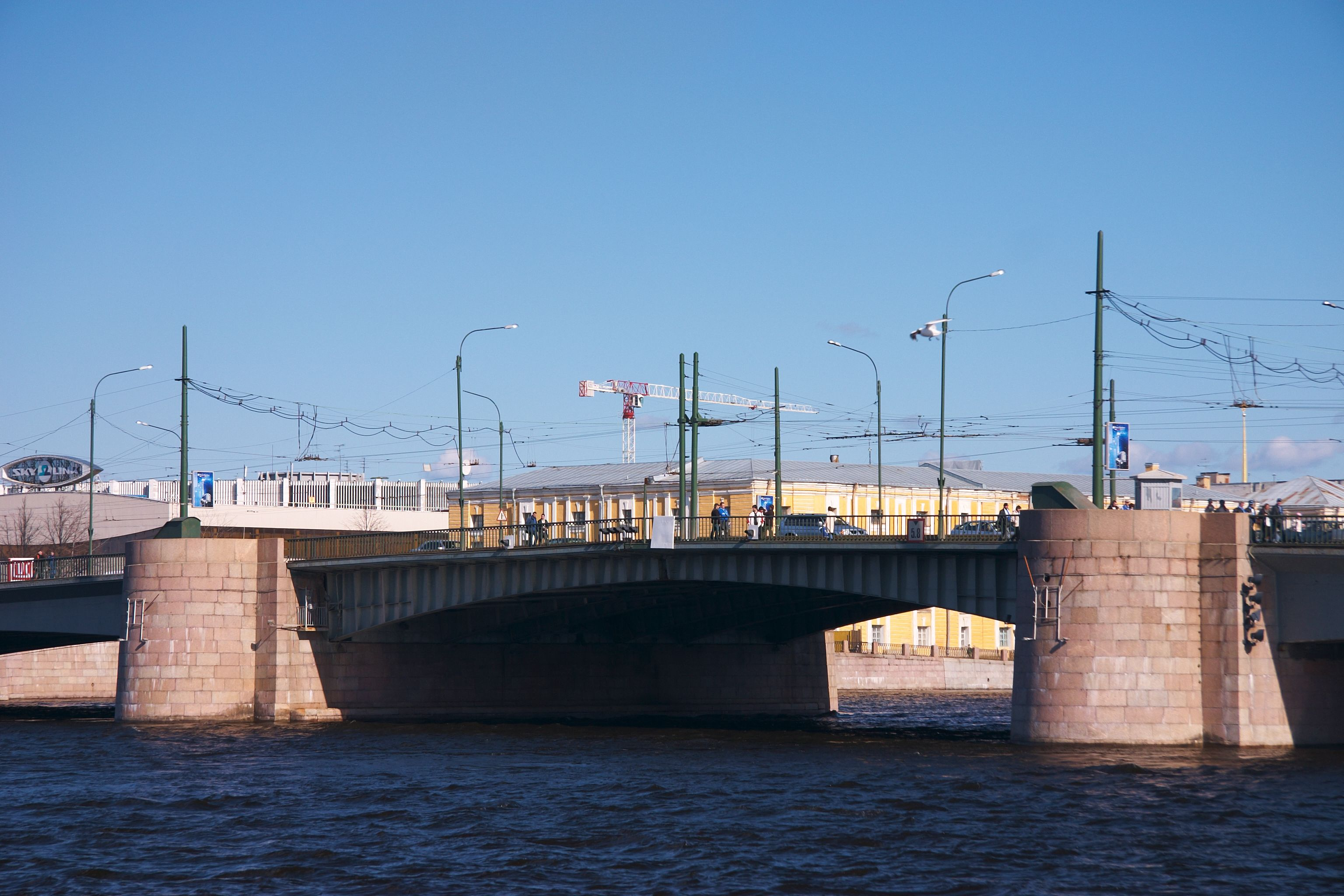 A Middle Part of the Tuchkov Bridge